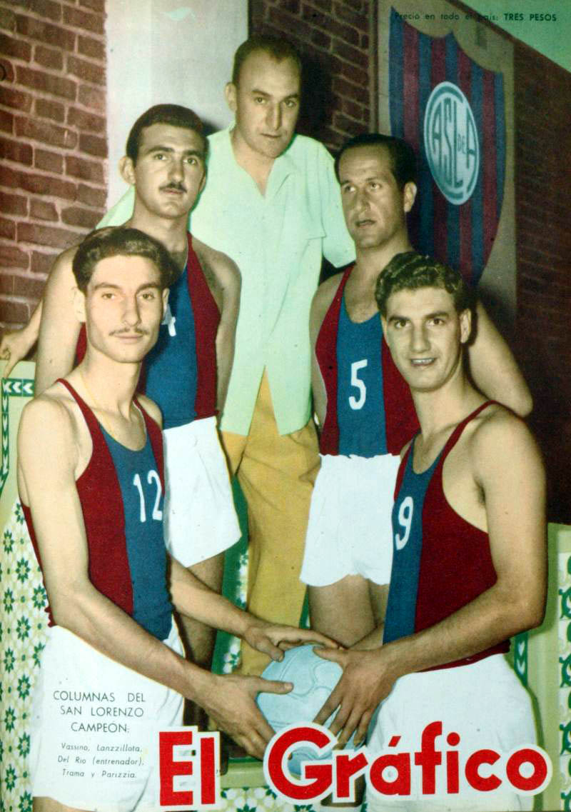 The San Lorenzo de Almagro basketball team that won the 1956 championship. Posing: Carlos Vasino, Ricardo Lanzillotta, Francisco del Río (DT), AlbertoTrama, Edgar Parizzia.